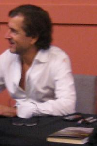 Bernard-Henri Lévy at a book signing for "Left in Dark Times" in 2008